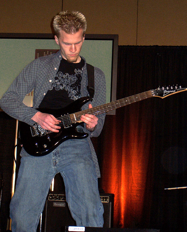 Chris Kline performing Contra: Jungle Jam at the Game Audio Network Guild (GANG) Awards ceremony, Game Developers Conference 2007, San Francisco.